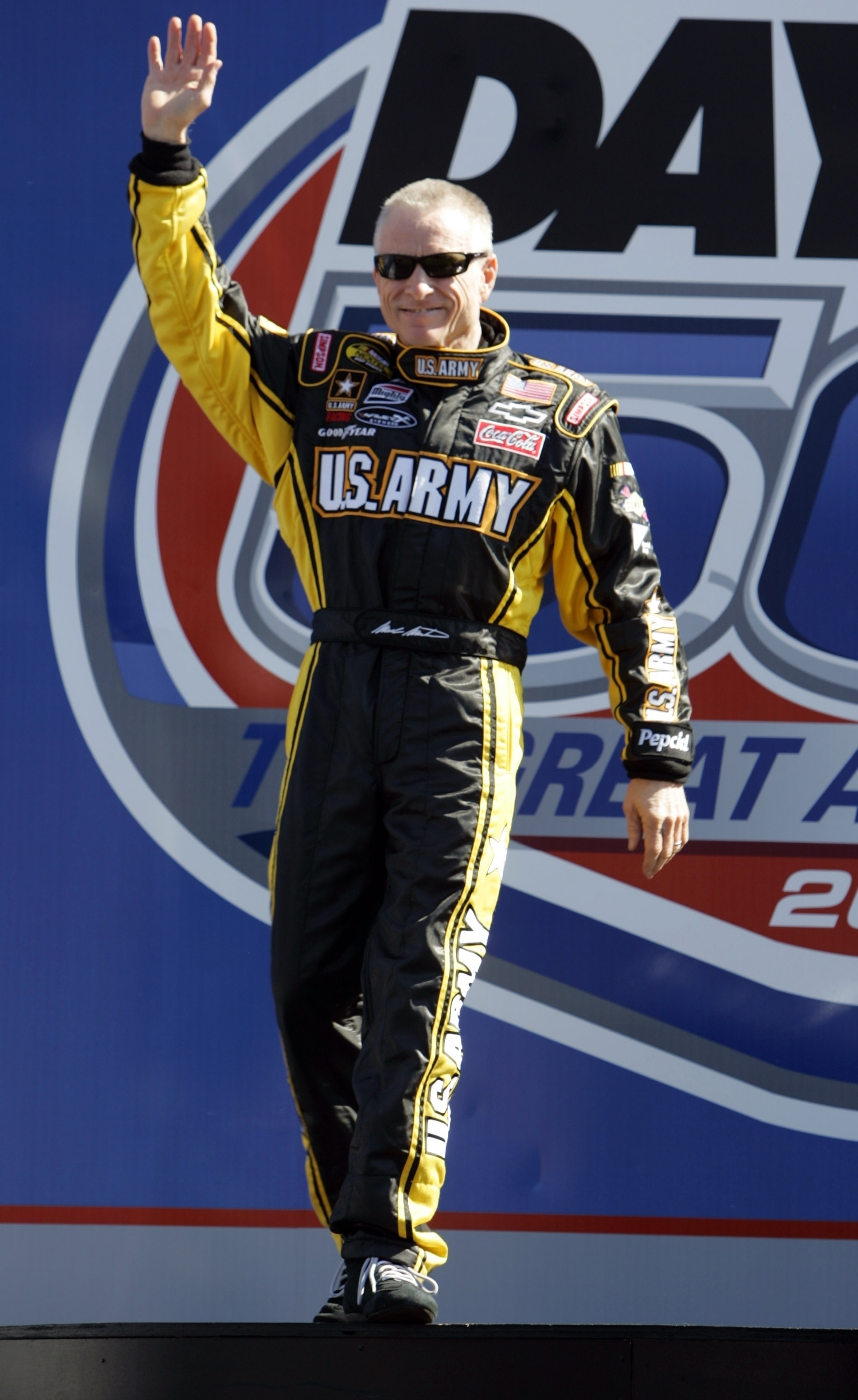 American NASCAR driver, Mark Martin being introduced during the 2007 Daytona 500.